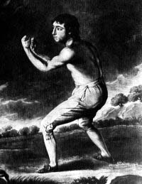 The English boxing champion of Spanish-Jewish origin, Daniel Mendoza (1764-1836)